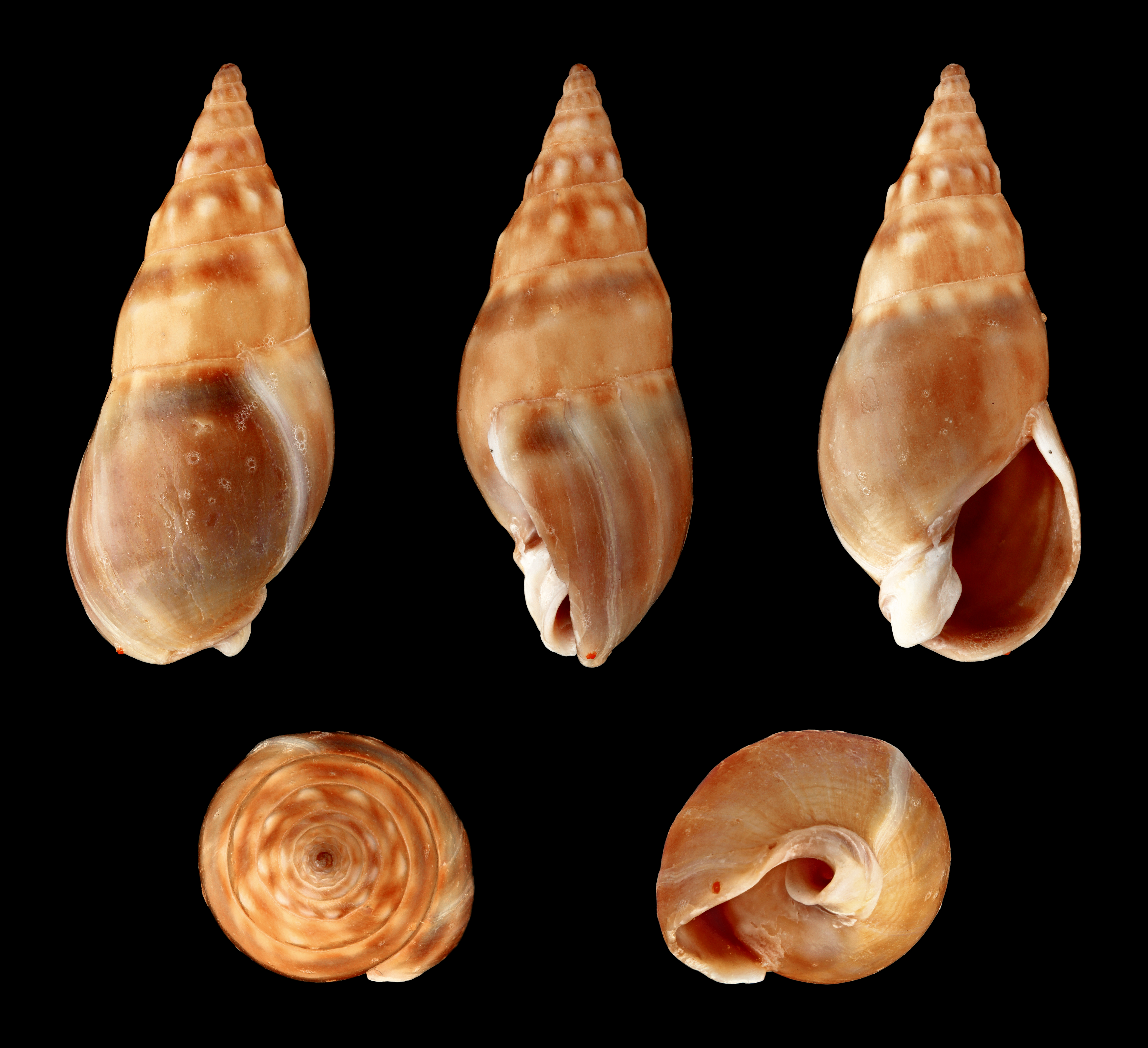 Moroccan Bullia; Length 3.1 cm; Originating from Atlantic coast of Western Sahara; Shell of own collection, therefore not geocoded. Dorsal, lateral (right side), ventral, back, and front view.